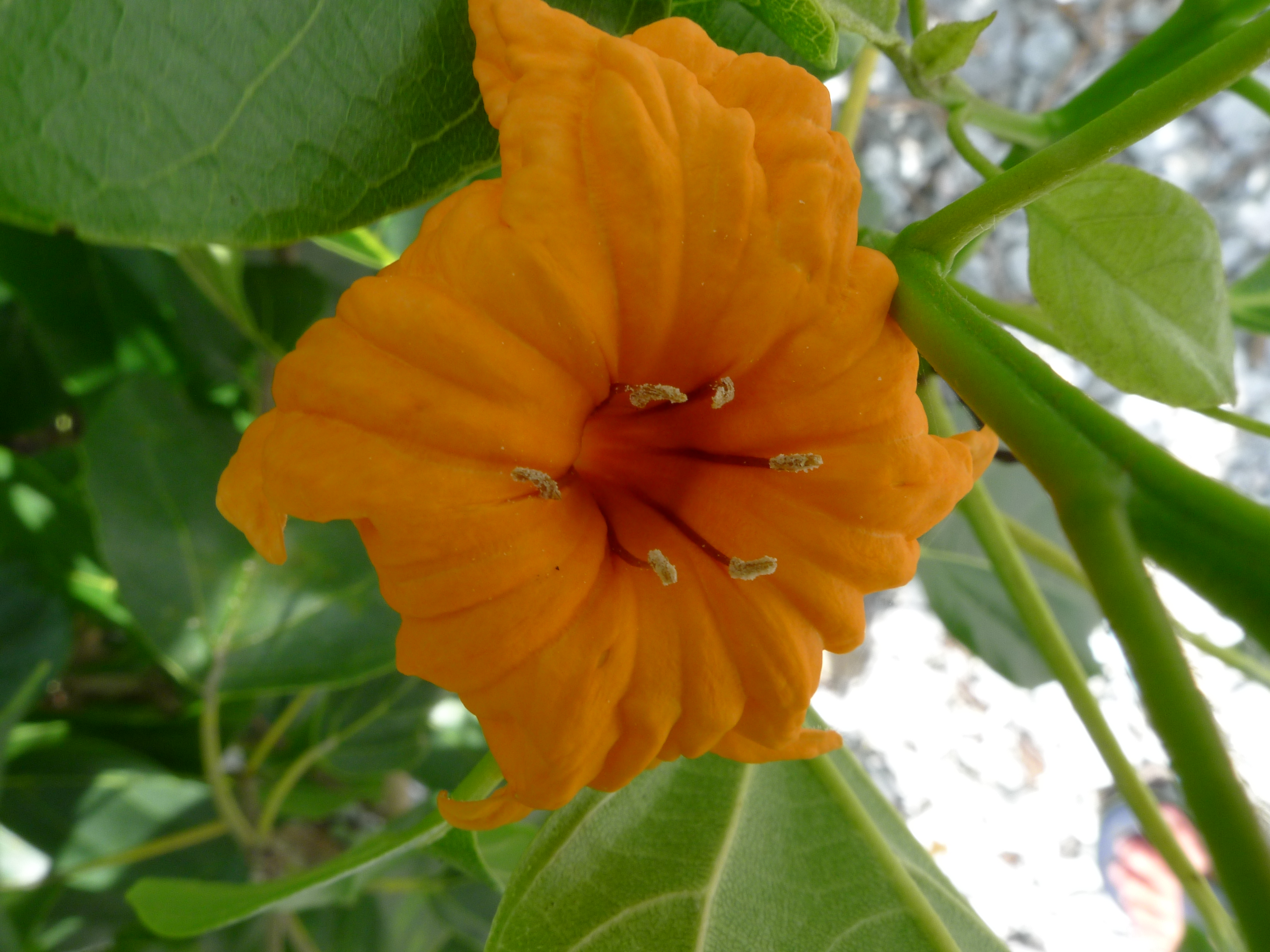 Cordia subcordata growing on the beach. Its seeds float and are dispersed by the ocean. Commonly found on tropical coasts. Lily Beach, Christmas Island, Australia, April 2011. Cordia subcordata is a bushy tree that grows to 15 m and belongs to the Boraginaceae family. That family includes Paterson's Curse, Echium plantagineum a herb-like weed. That is very weird.